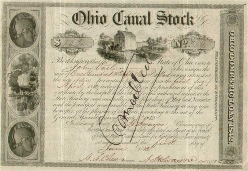 Certificate issued in 1842 by the Canal Fund Commission of the state of Ohio in the United States. This certificate, printed by the state, was used to raise funds to build canals in Ohio or to pay interest on old canal debt.